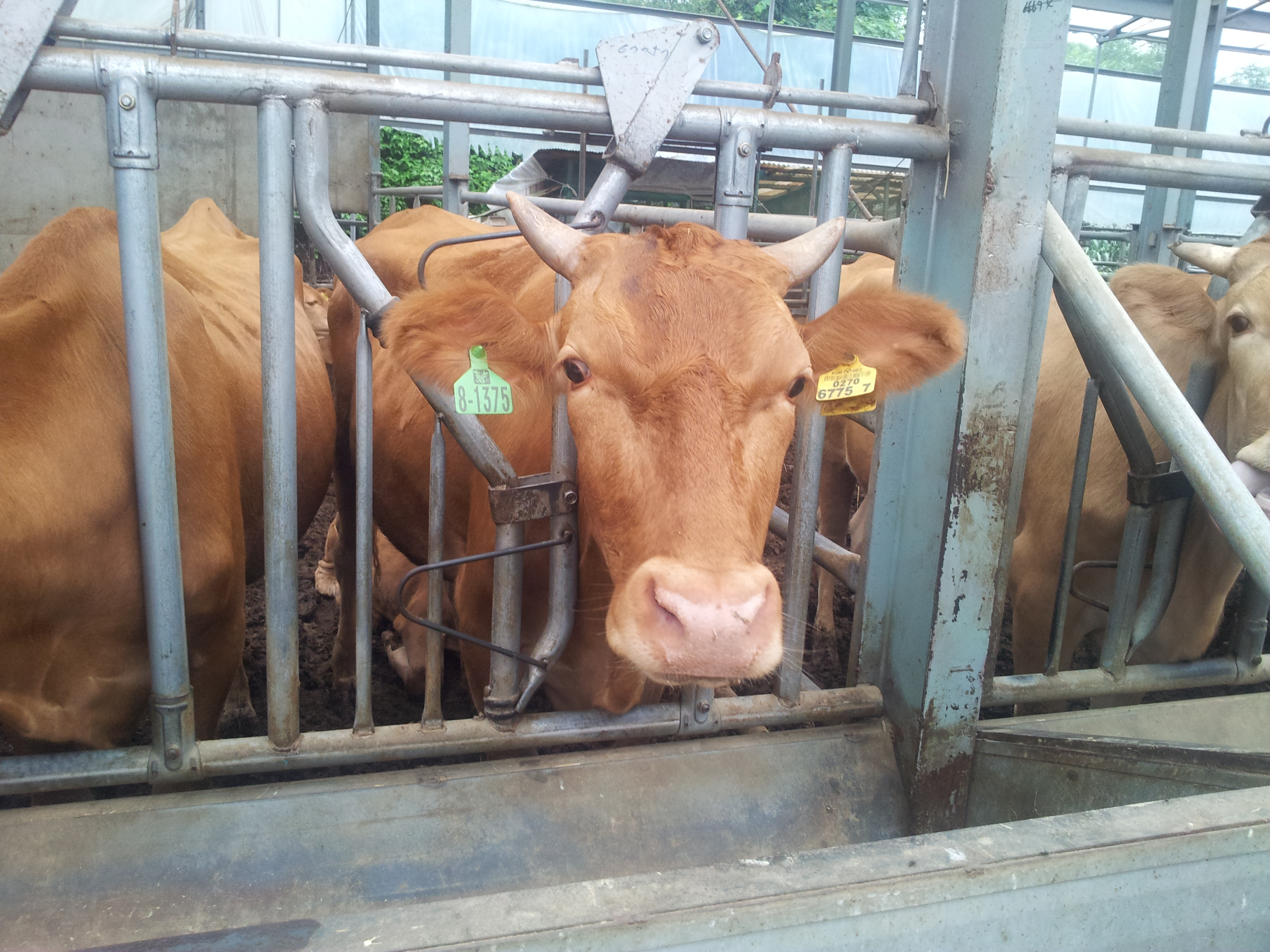 Korean Hoengseong native cattle